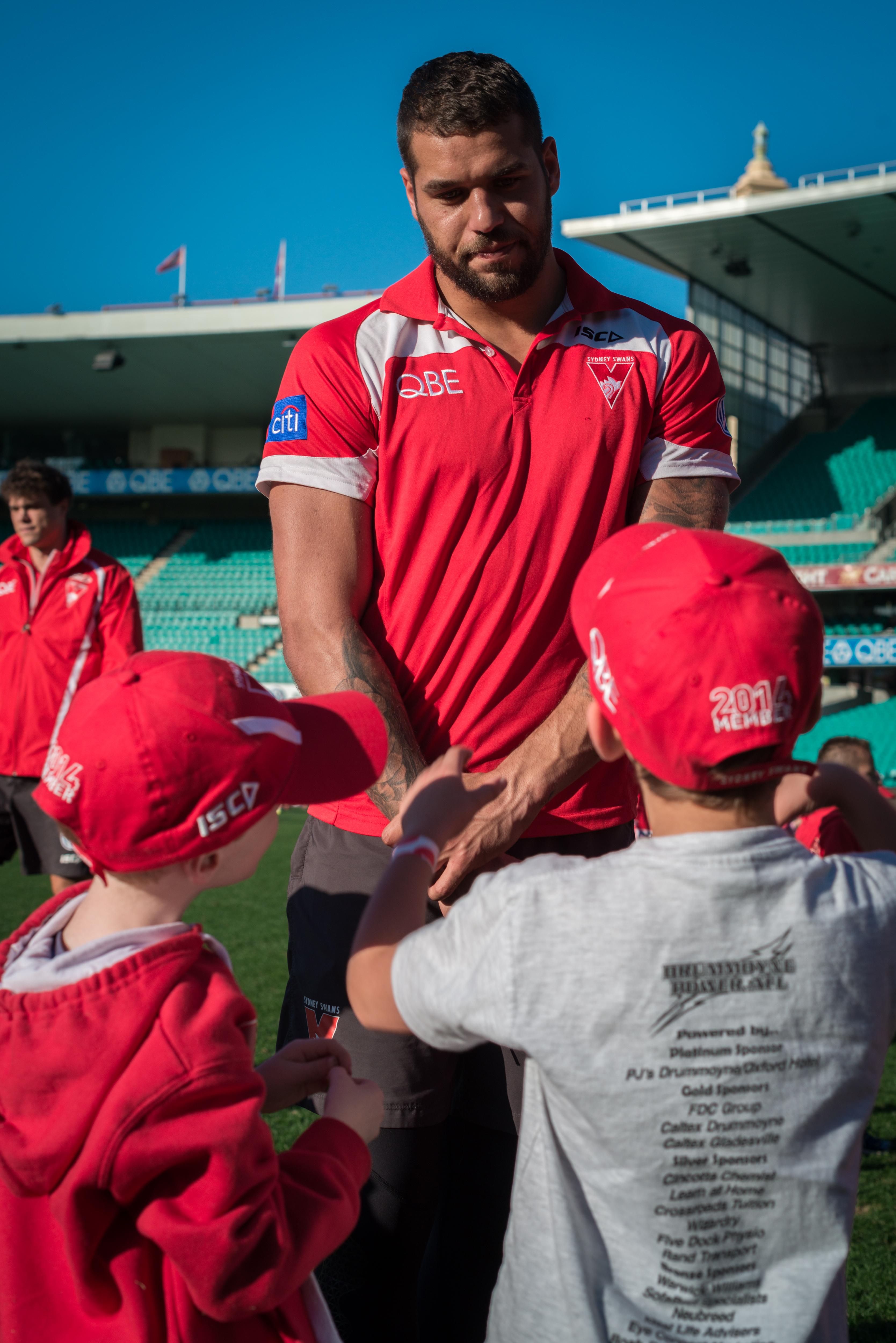 Sydney Swans Fan Day Lance "Buddy" Franklin